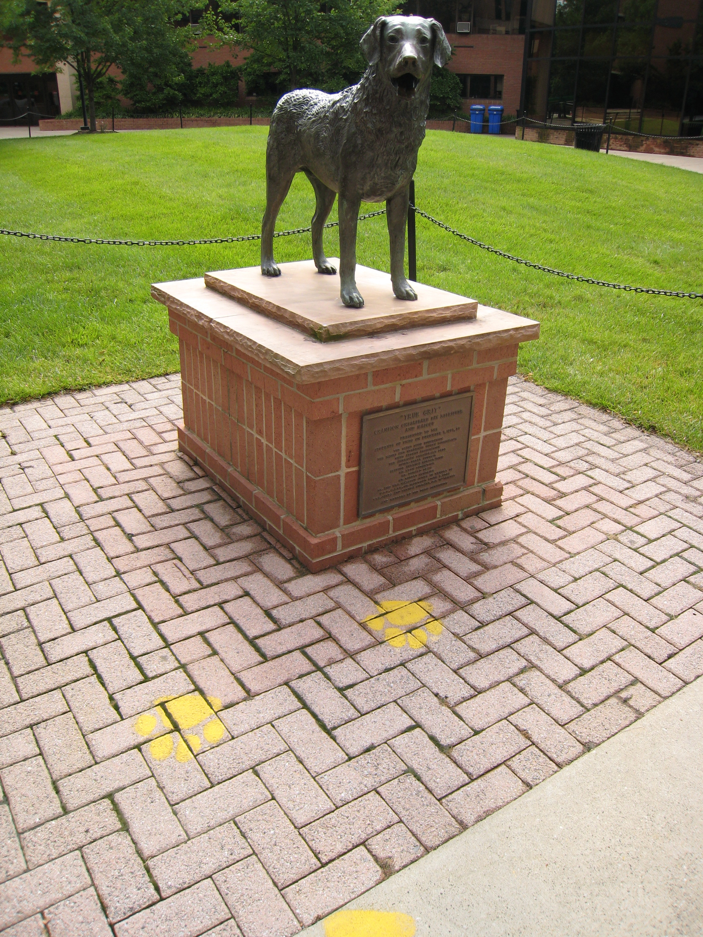 True Grit, the mascot of the University of Maryland, Baltimore County.